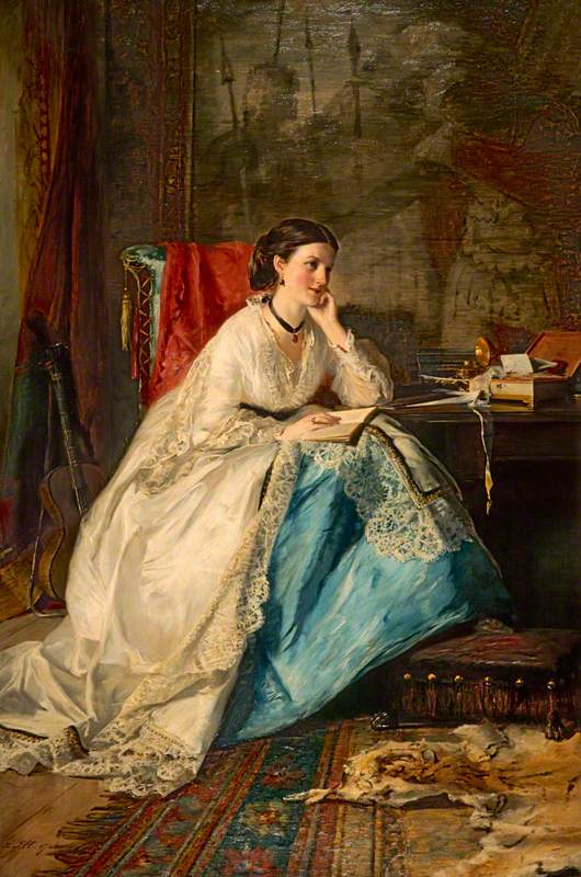 Portrait of Emily Merelina Meymott (1830–1911), Baroness Shand.